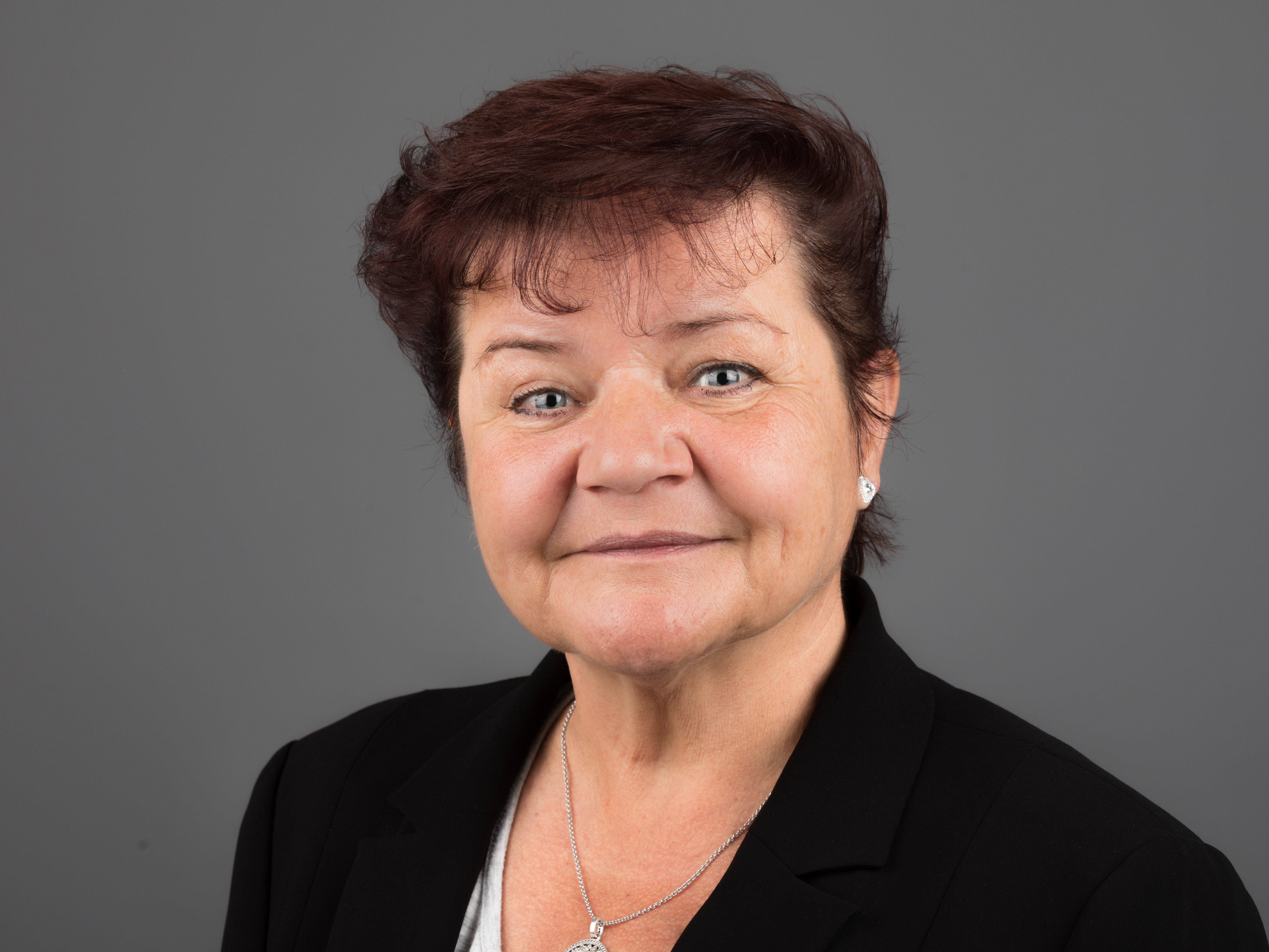 Ines Schmidt